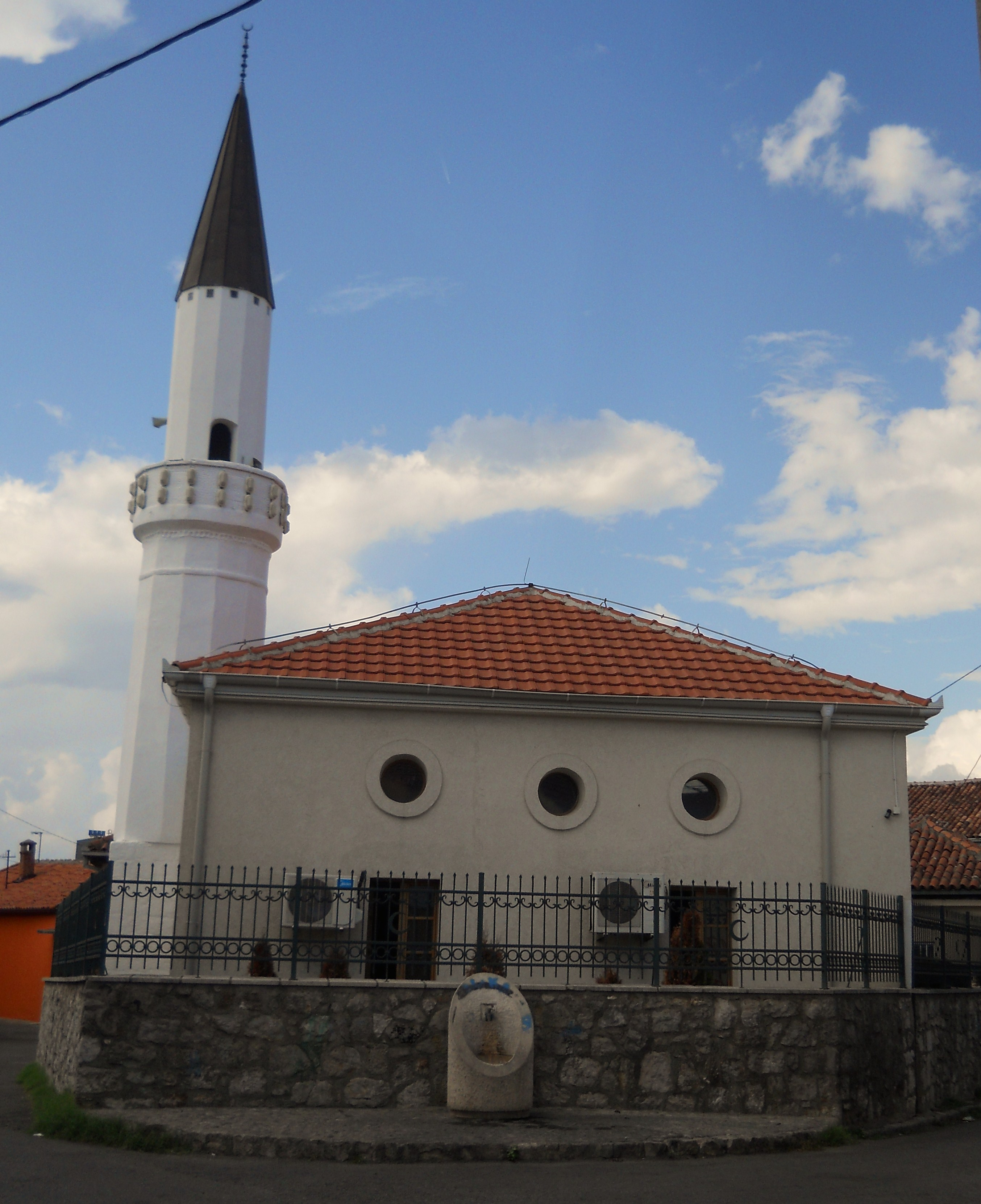 Starodoganjska Mosque, Podgorica